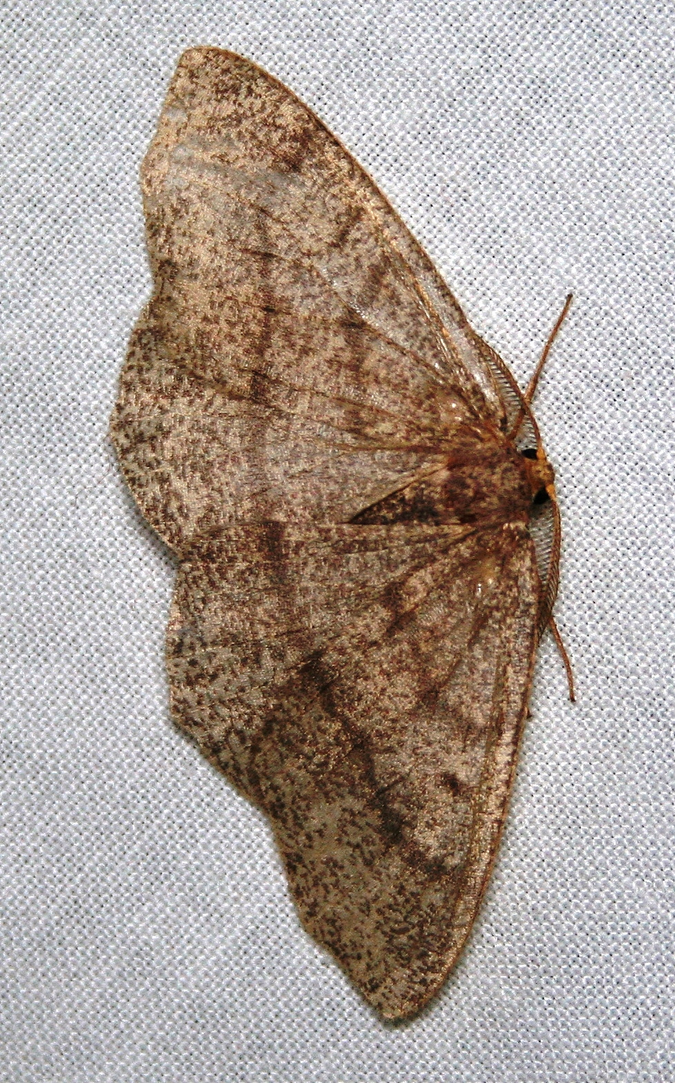 Tentatively matched with Lambdina pellucidaria or fervidaria.